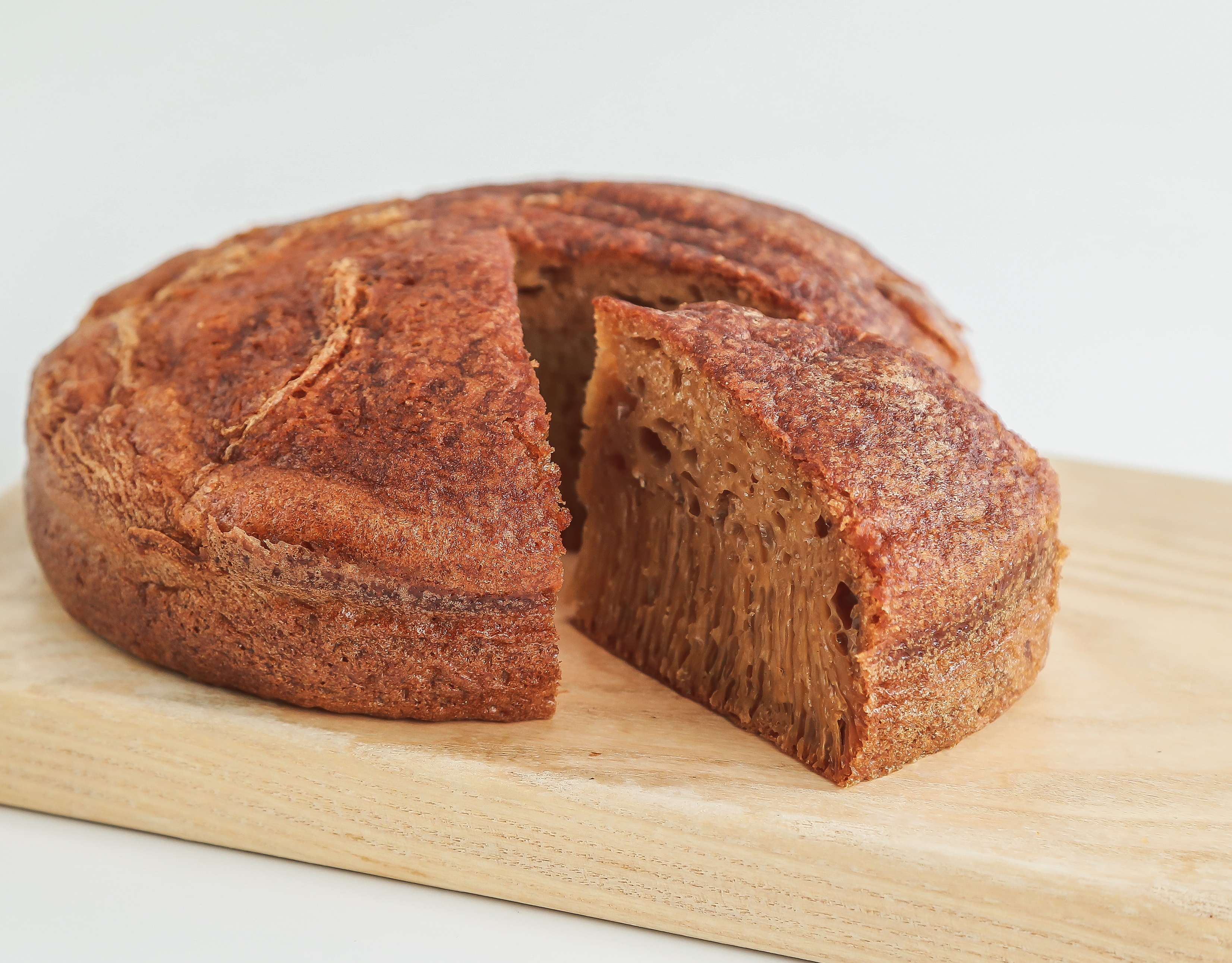 Honey Comb Cake with palm suger